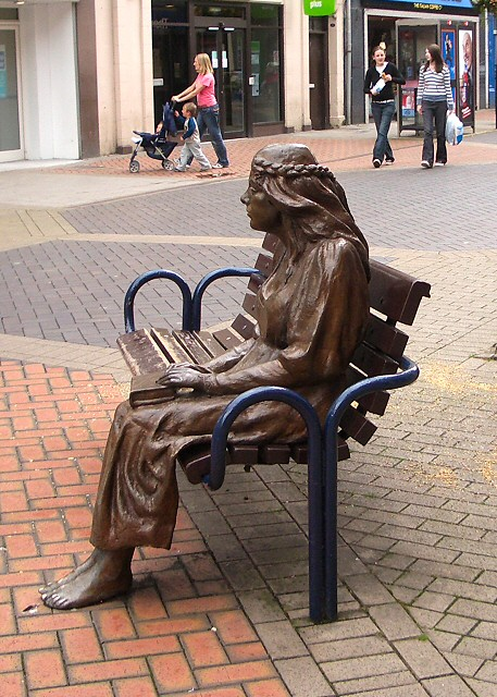 The Fair Maid of Perth This sculpture by Graham Ibbeson sits at the east end of the pedestrianised High Street. It refers to the novel of the same name by Sir Walter Scott, although the maid herself seems to have lost interest in her book.